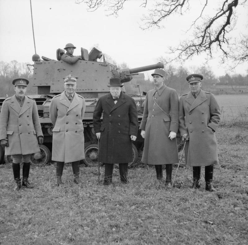 Winston Churchill As Prime Minister 1940-1945 The Prime Minister witnessed a tank demonstration in which he was shown the capabilities of various armoured fighting vehicles over rough country near Frensham, Surrey. With him were General Władysław Sikorski, the Prime Minister of the Polish Government-in-Exile and the C-in-C of the Polish Armed Forces, and General Charles de Gaulle, the C-in-C of the Free French Forces. The 2nd Armoured Brigade; 11th Royal Horse Artillery; 76th Anti-Tank Regiment, Royal Artillery; 10th Hussars; 9th Lancers; Queen's Bays, Royal Horse Artillery; 1st Battalion, Rifle Brigade took part in the demonstration.